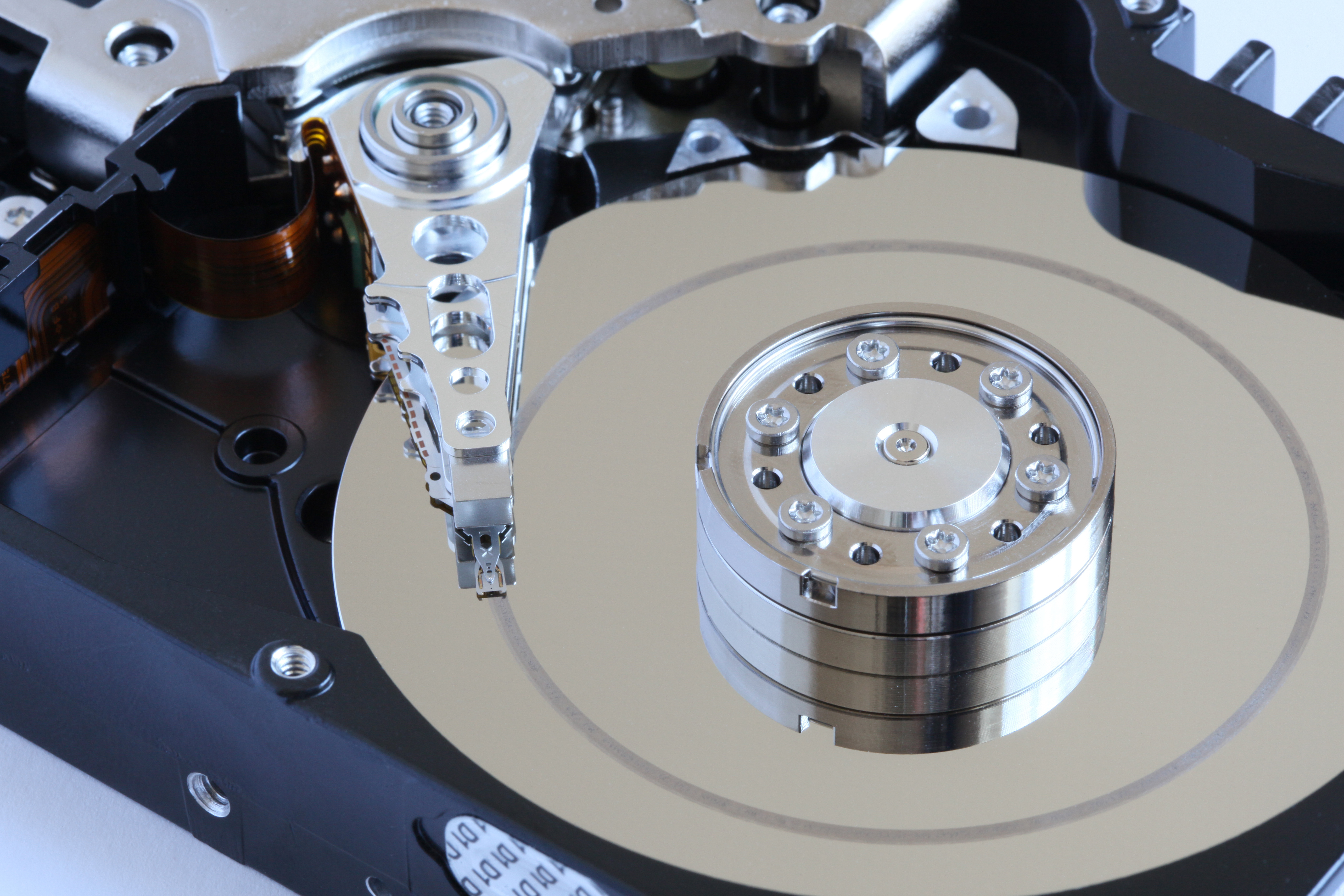 Head crash in a new model hard disk.